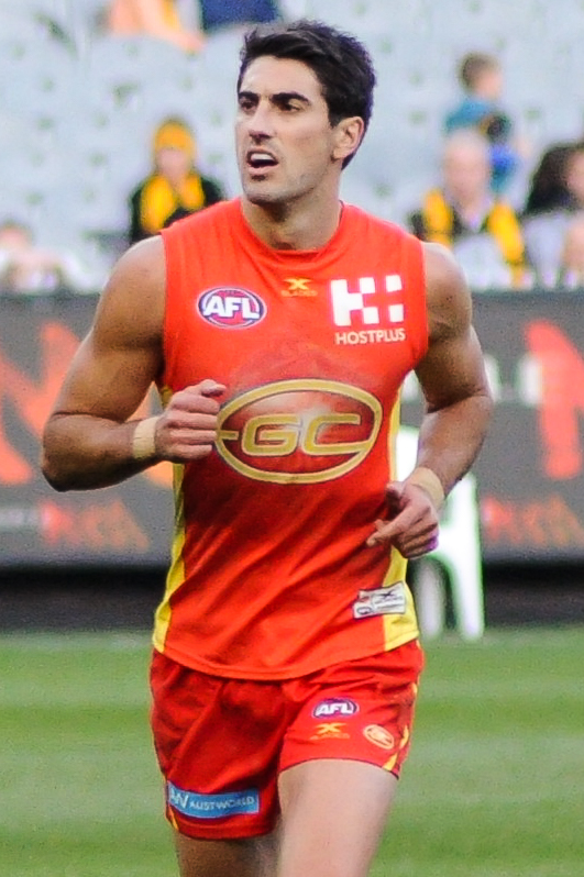 Matt Rosa during the AFL round twelve match between Melbourne and Collingwood on 10 June 2017 at the Melbourne Cricket Ground in Melbourne, Victoria.